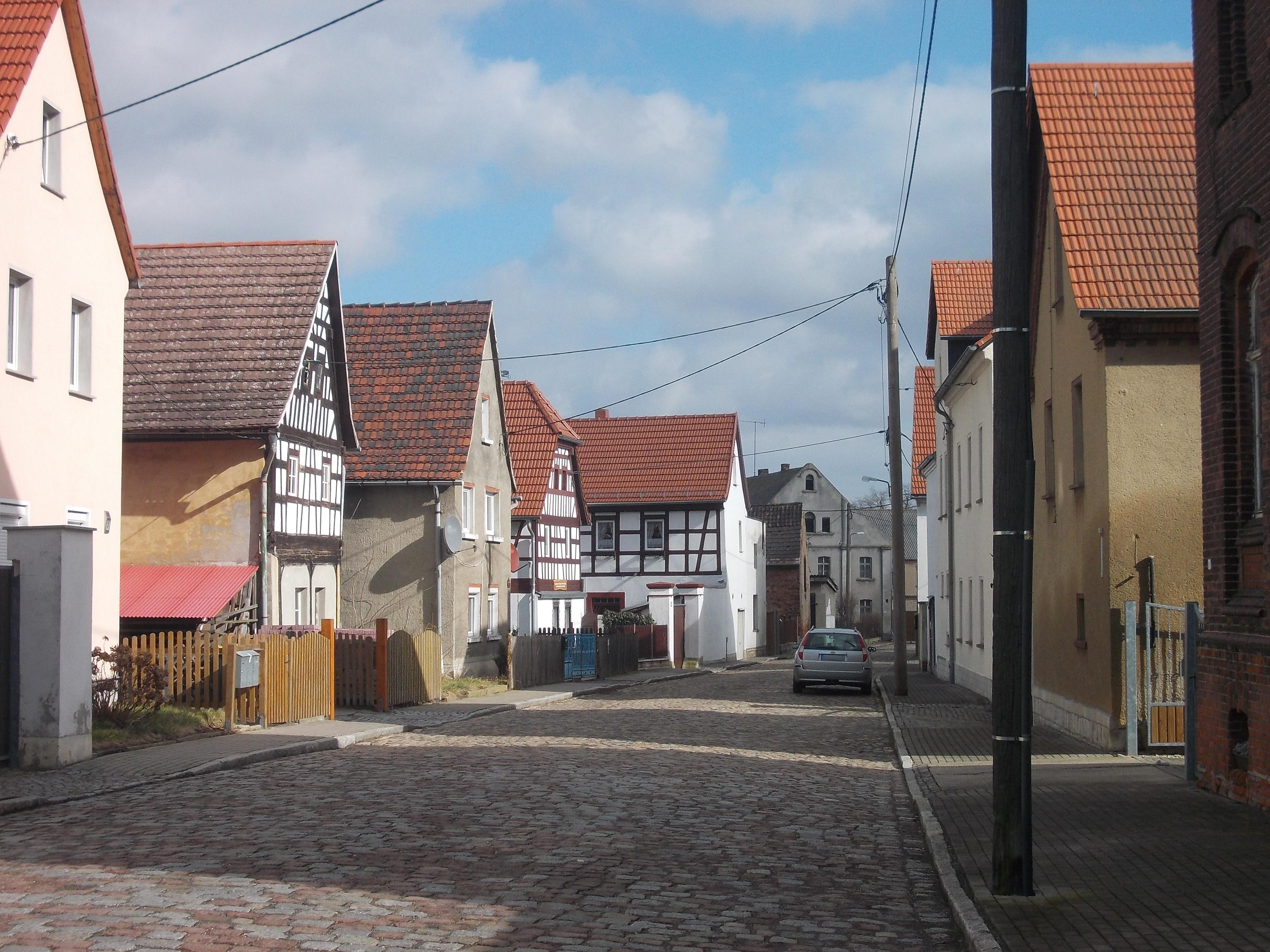 Kirchgasse in Unterwerschen (Hohenmölsen, district: Burgenlandkreis, Saxony-Anhalt)